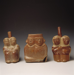 Moche Conjoined Twins. Larco Museum Collection. Lima, Peru. Free Use.